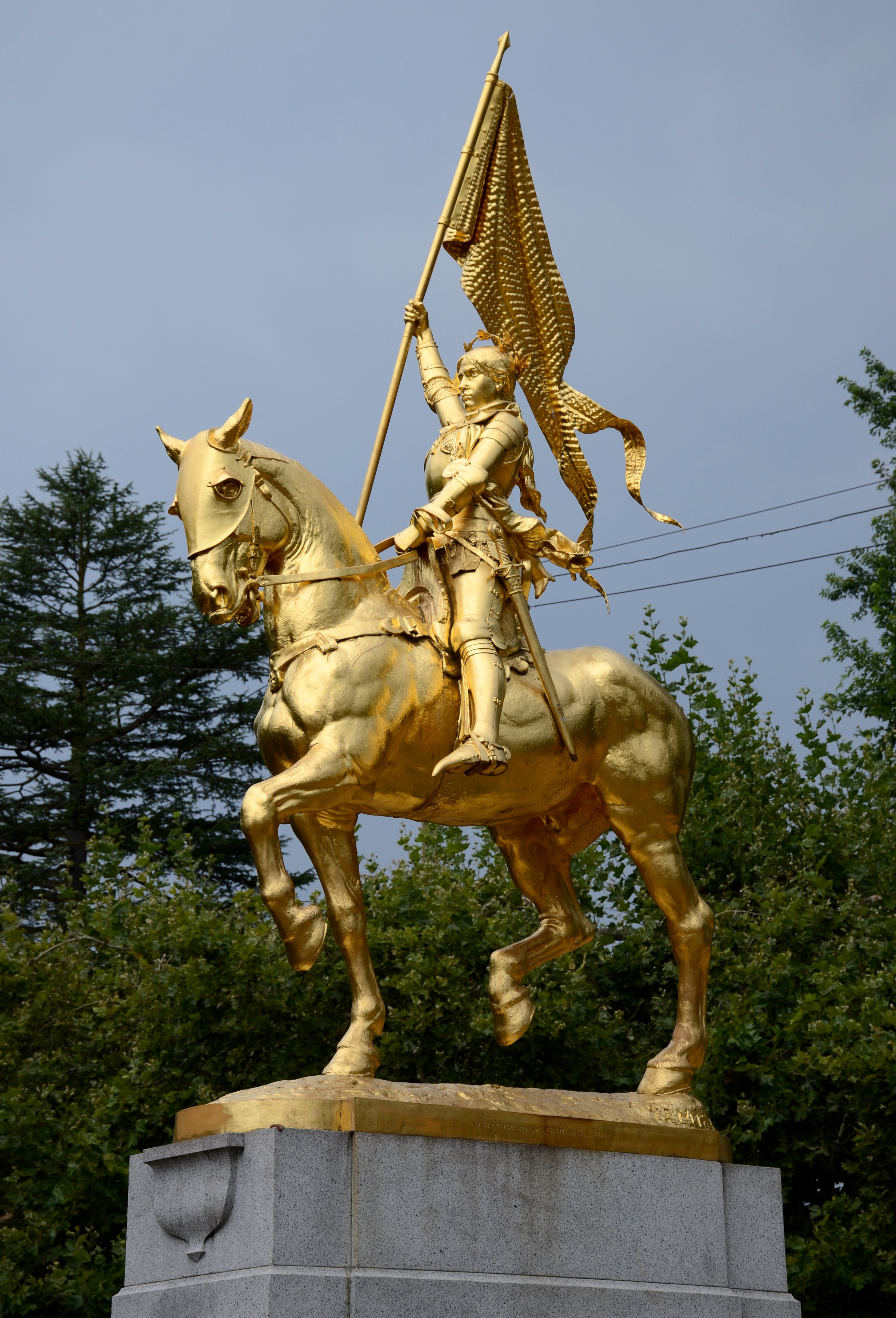 Gilt bronze equestrian sculpture of Joan of Arc by Emmanuel Frémiet in Coe Circle (at NE 39th & Glisan) in the Laurelhurst neighborhood of Portland, Oregon, U.S.A.